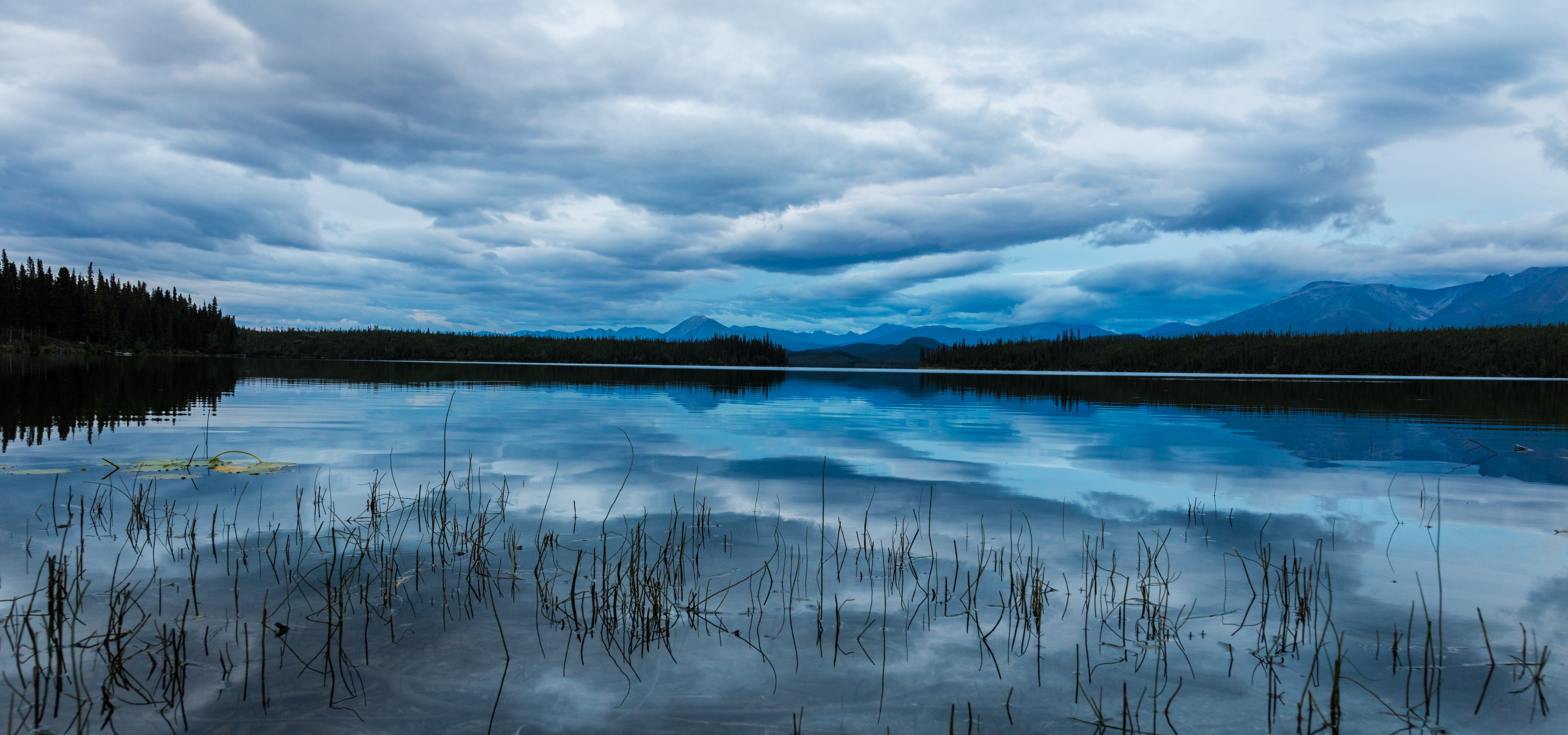 Silver Lake during dusk, Wrangell–St. Elias National Park and Preserve, Alaska, United States.